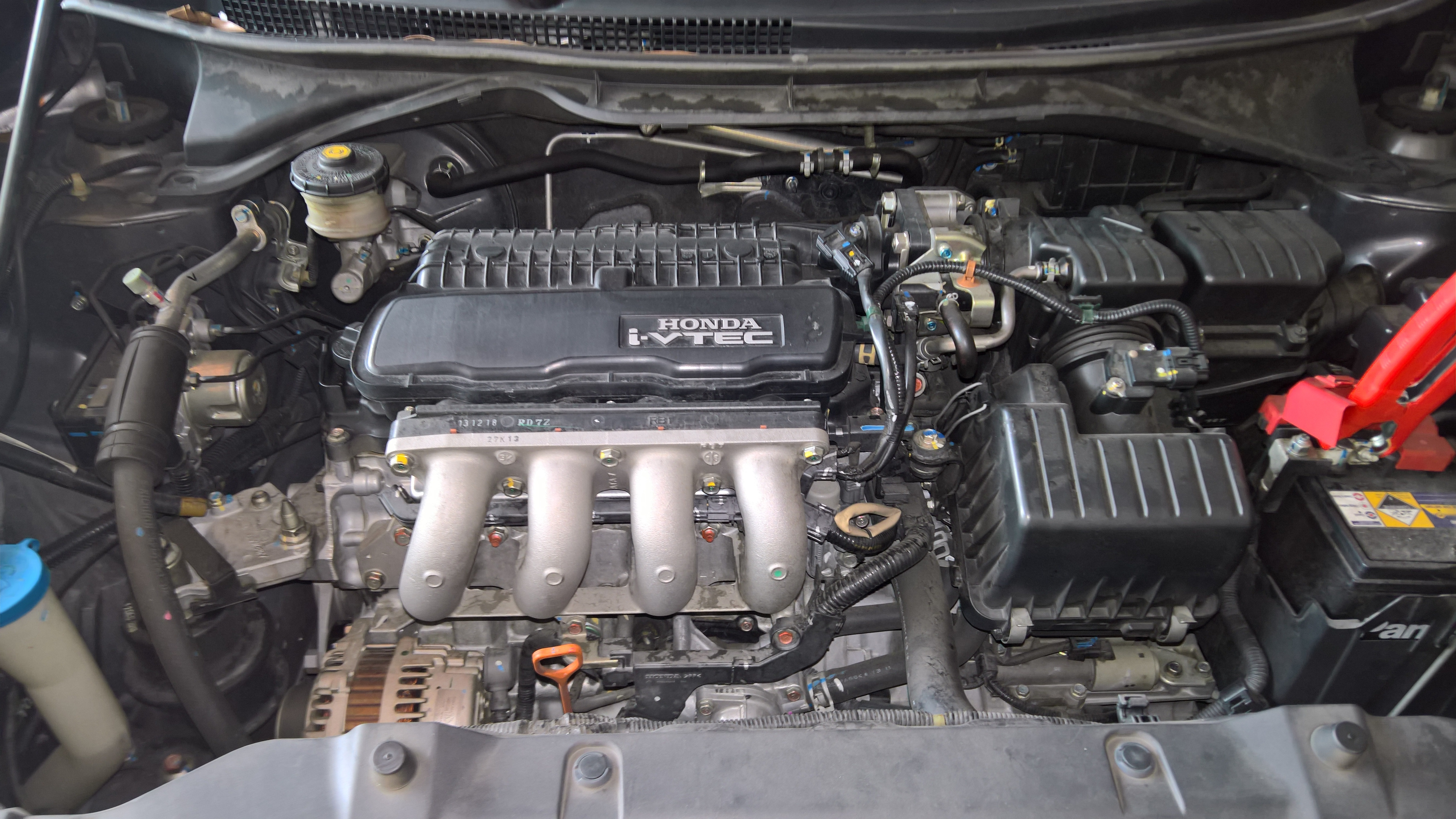 L15A7, ignore the picture name, I got messed up